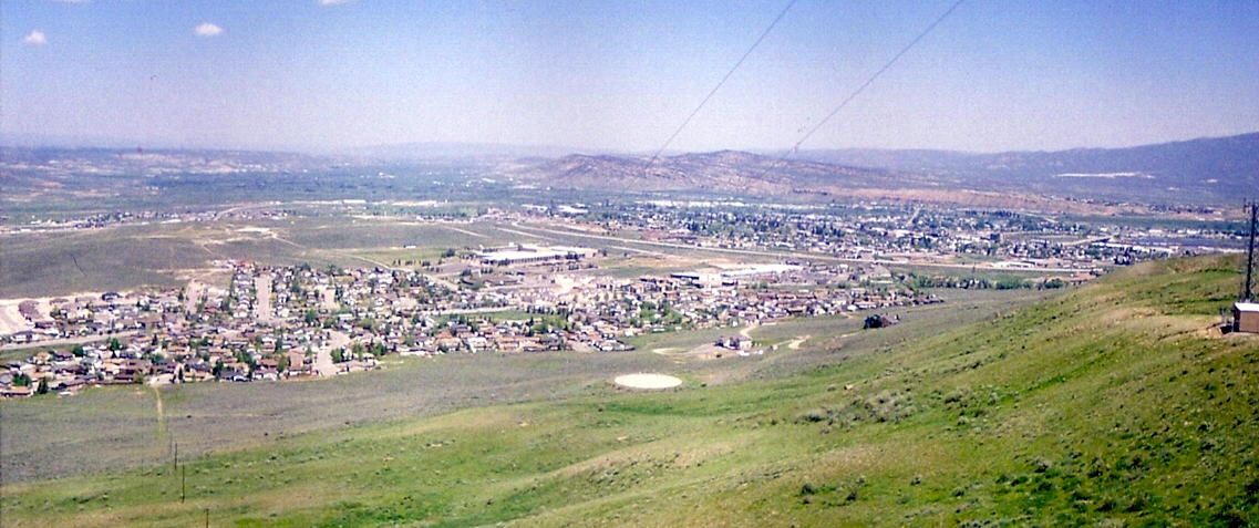 Evanston from atop Burnt Hill, south of town. This picture is looking north.